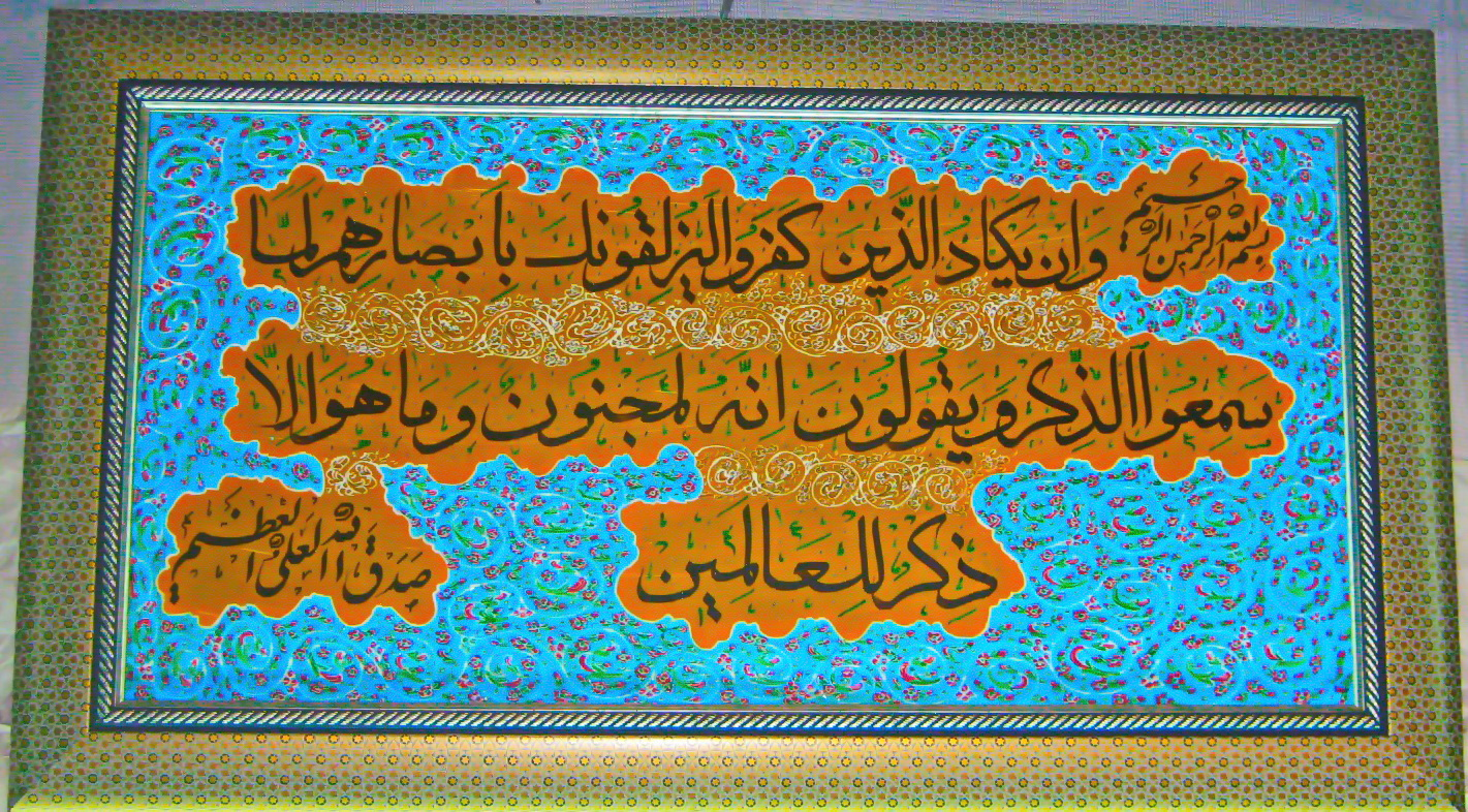 Quranic Calligraphy Tableau - Caravanserai of Nishapur (Edited)